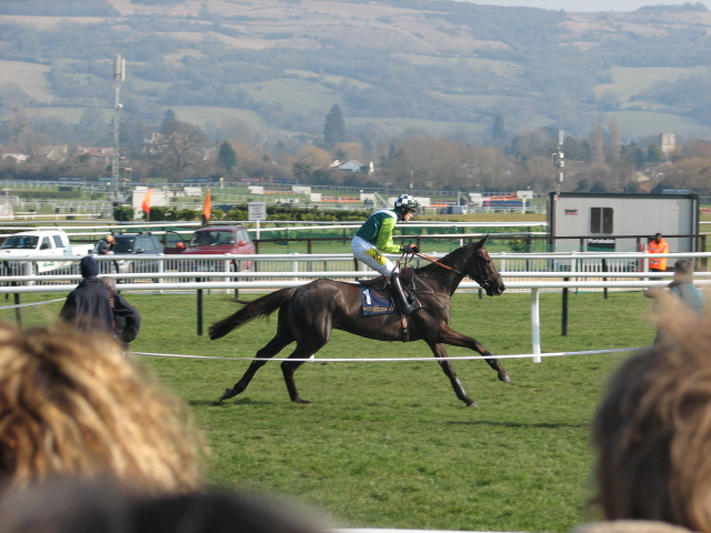 Denman, winner of 2008 Cheltenham Gold Cup. The picture on started novice race and his first lost in Cheltenham racecourse at 15-3-2006